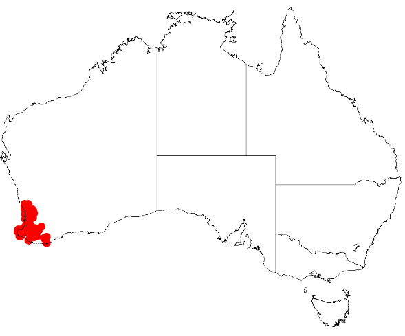 Acacia huegeli Occurrence data from Australasia Virtual Herbarium downloaded from on 8 December 2018